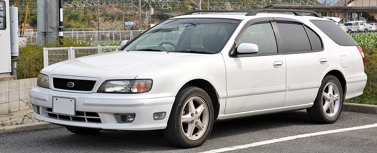 Nissan Cefiro Wagon